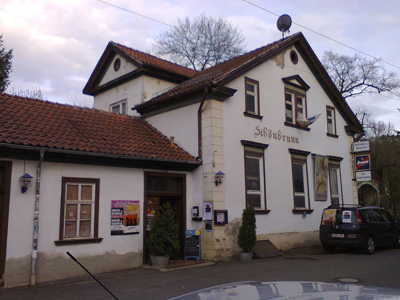 Schönbrunn (Arnstadt)